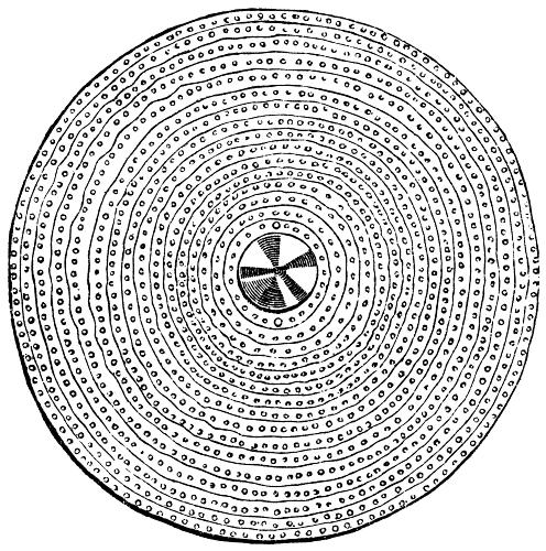 Drawing of a round bronze shield.